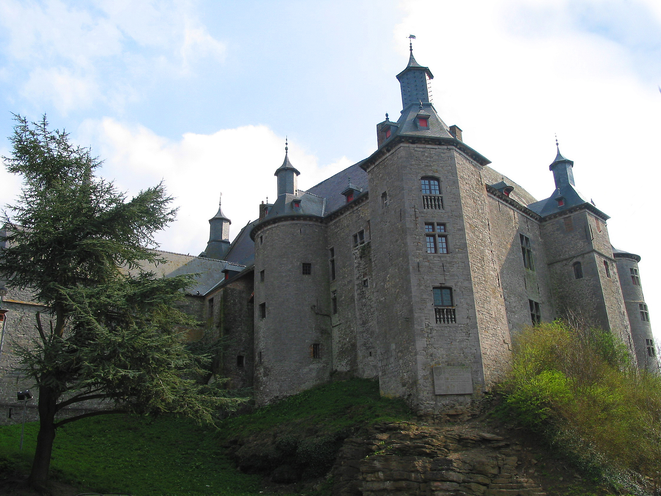 Écaussinnes-Lalaing (Belgium), the fortified castle (XII/XVth centuries).